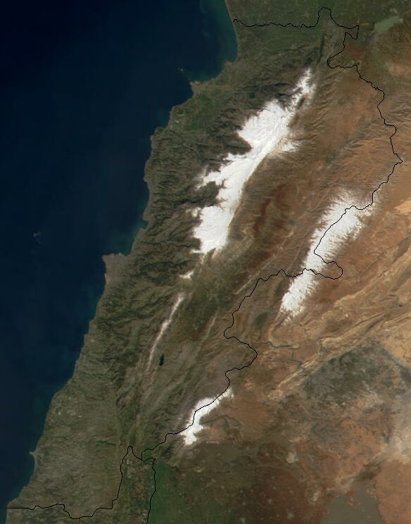 Satellite image of Lebanon in March 2002.